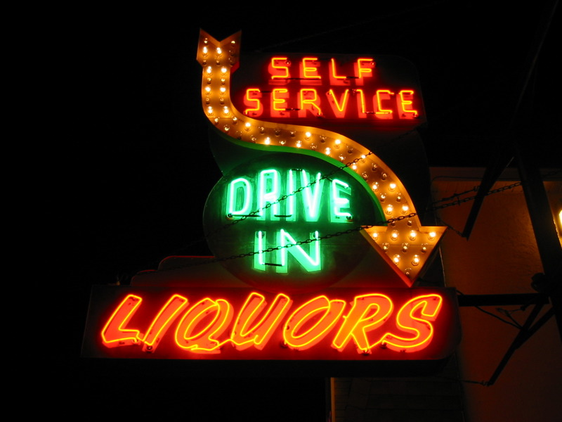 An iconic sign lights up the Cork 'n' Bottle, a liquor store in Wildwood, New Jersey.